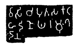 Ajanta Cave 10 dedicatory inscription